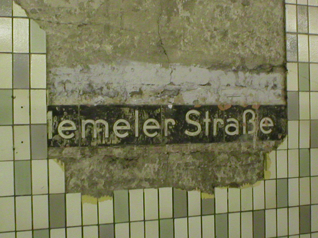 sign of the old name Memeler Straße of Weberwiese underground station of the Berlin U-Bahn, Germany, before its 2003 renovation